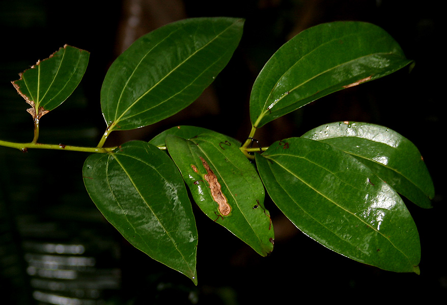 Cinnamomum tamala ((Syn. Cinnamomum tejpata, Laurus tamala)- Indian Bay Leaf, Indian cassia, Indian cassia bark, Tamala cassia • Hindi: तेजपत्ता tejpatta • Manipuri: তেজপাত Tejpat • Tamil: தாளிசபத்திரி Talishappattiri • Malayalam: തമാലപത്രമ് Tamalapatram • Telugu: Talisapatri, Talisha, Patta akulu • Kannada: Patraka • Bengali: তেজপাত Tejpat • Urdu: तेज़पात Tezpat • Assamese: Mahpat, তেজপাত Tejpat • Gujarati: તમાલપત્ર Tamaal patra • Sanskrit: तमालपत्र tamalapattra- in Goa, India.